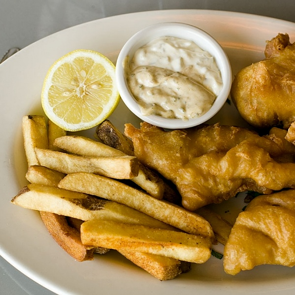 A photo of a plate of fish and chips